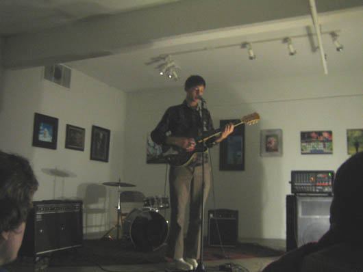 photo by Cole Miller